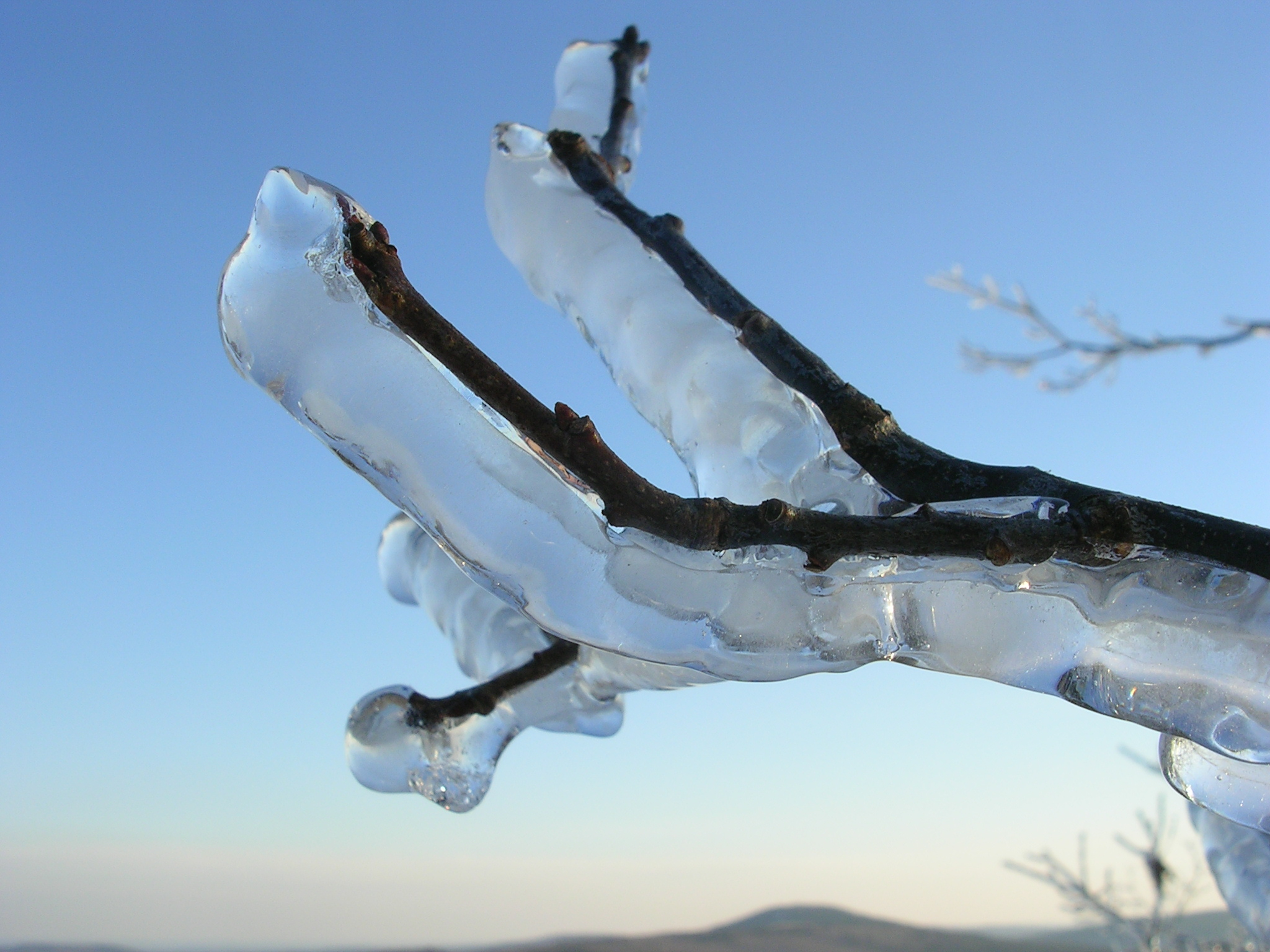 A buildup of ice on a branch after an ice storm. Taken in New Ipswich, NH, on the top of Pratt Mountain (42°43′57″N 71°55′10″W).